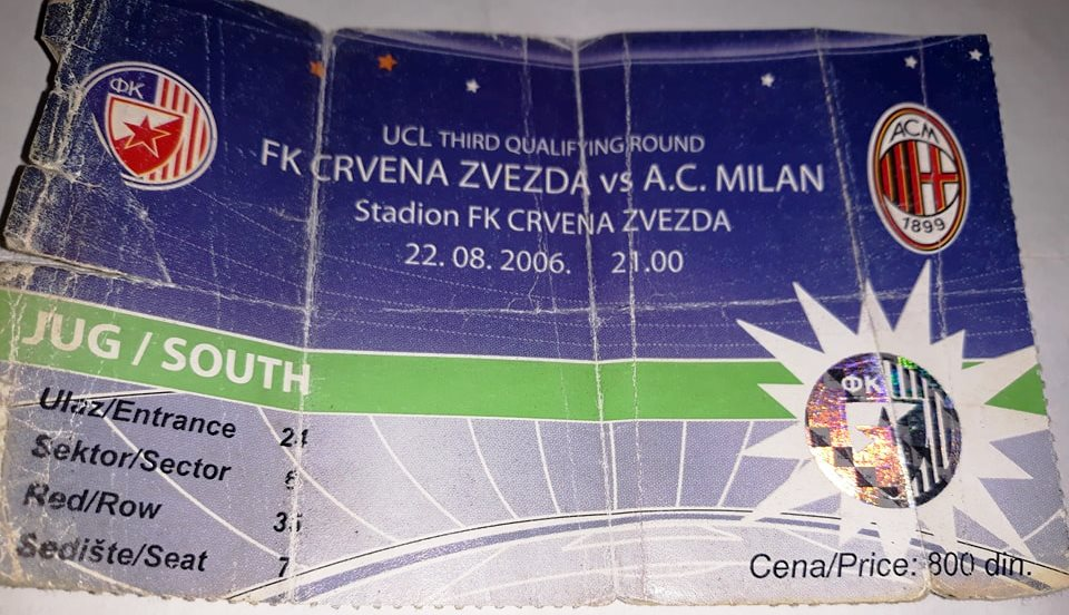 Red Star - Milan rematch entry ticket from August 22, 2006